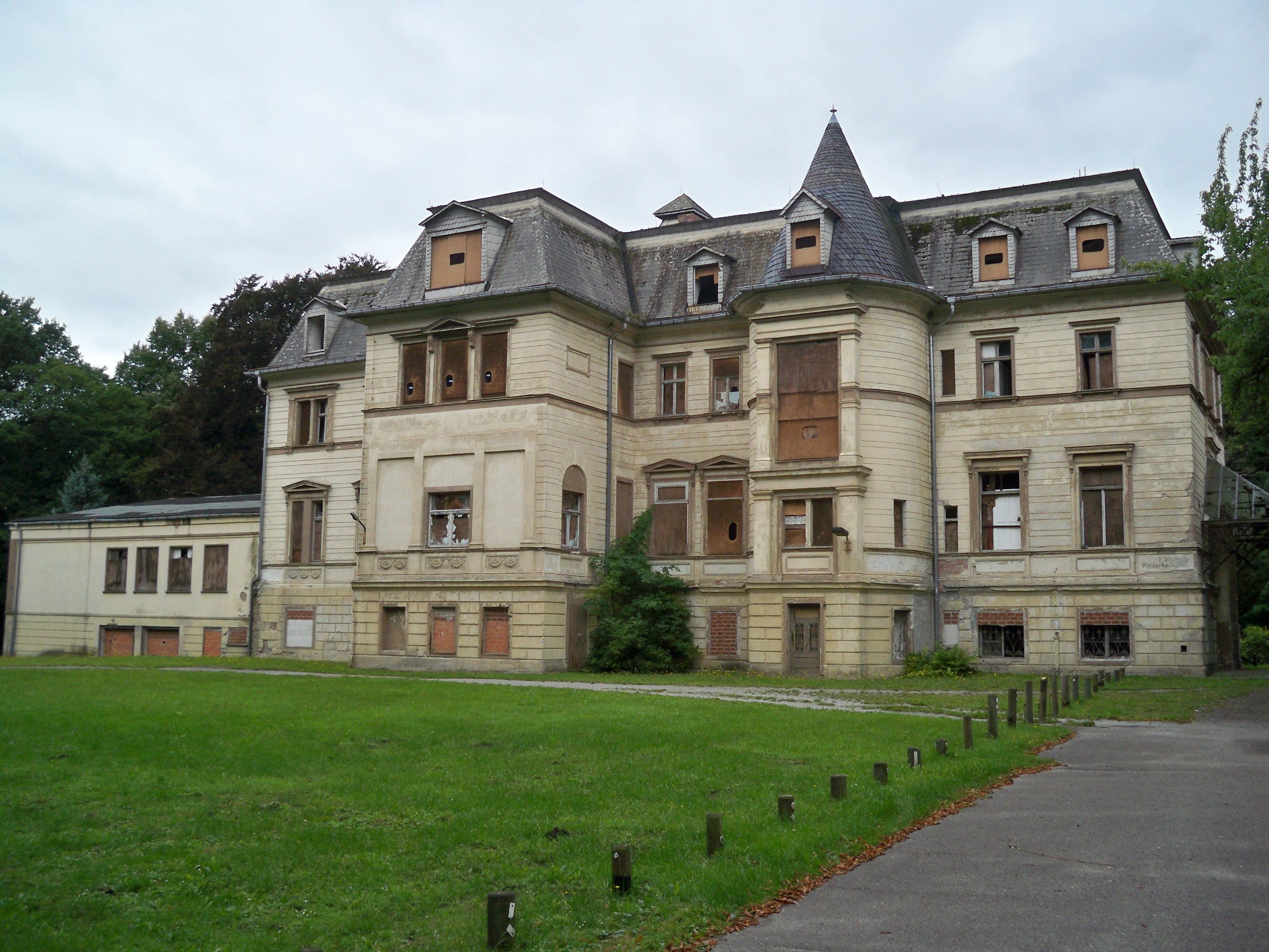 Tangerhütte, Saxony-Anhalt, Altes Schloss (dilapidated, for sale)